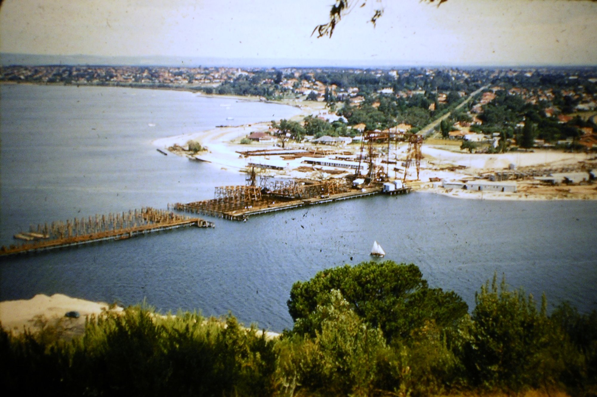 Narrows Bridge, Perth, Western Australia. Under construction c. 1958 Source: User:Moondyne